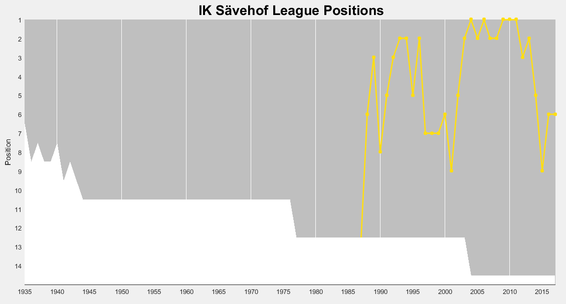 IK Sävehof (men) positions in the top division. The grey area denotes the number of teams in the top division. For split seasons, the autumn positions are shown when the team did not play in the top division in the spring season.